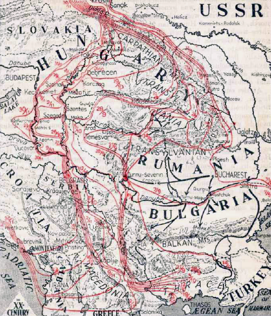 Balkan Front 31.08.-30.11.1944 (week by week map of the german retreat in the South-Eastern theatre in autumn 1944)